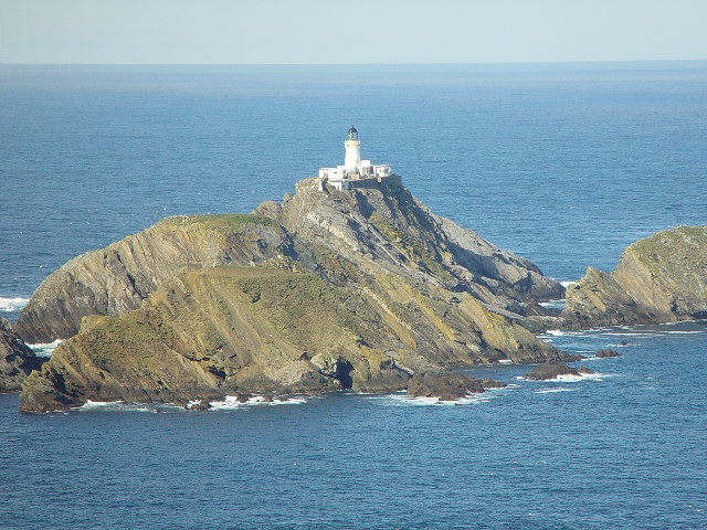 Muckle Flugga and its lighthouse, the most northerly in the British Isles, as seen from Hermaness, Unst, Shetland.